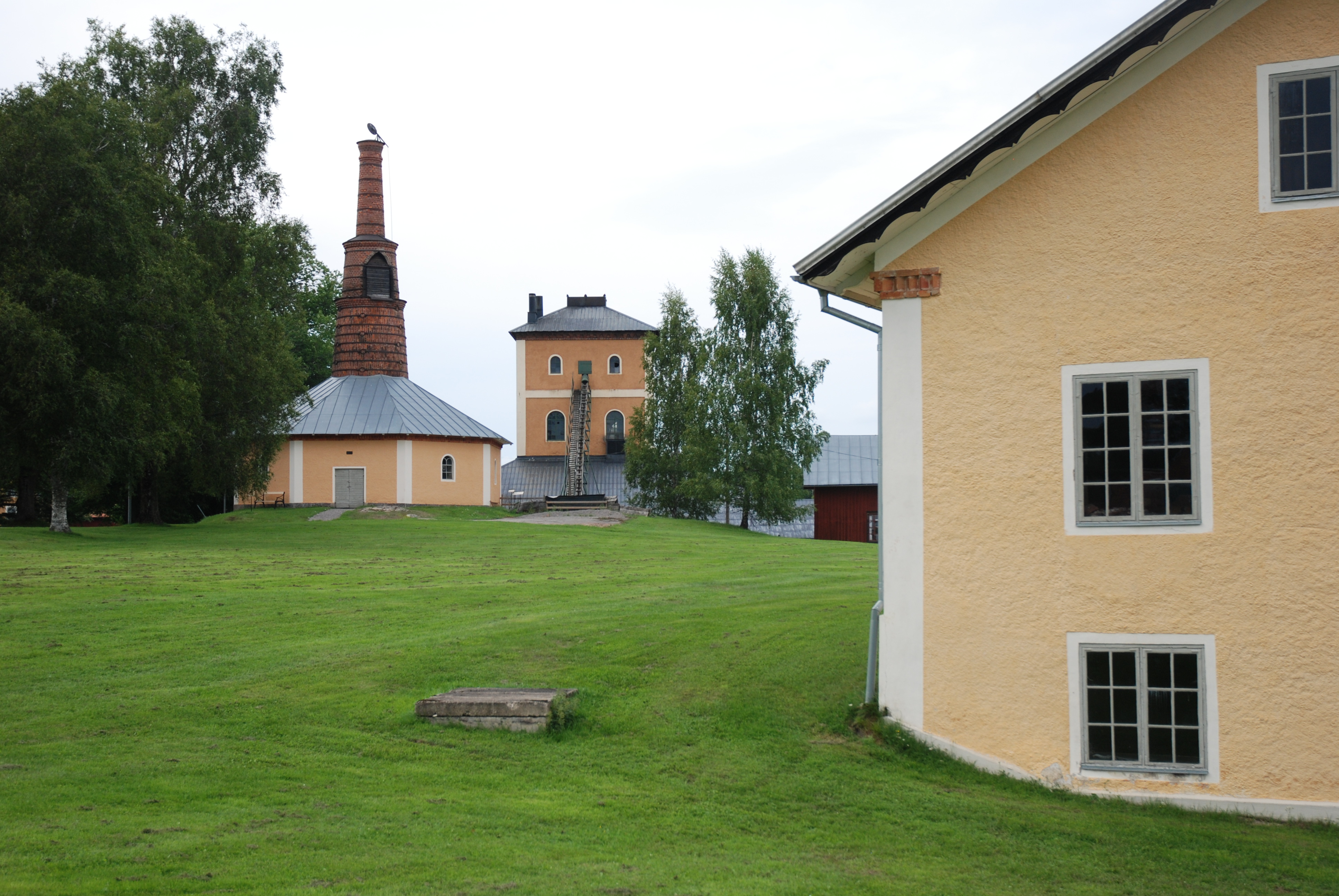 Brevens bruk, earlier iron works in province of Närke, Sweden